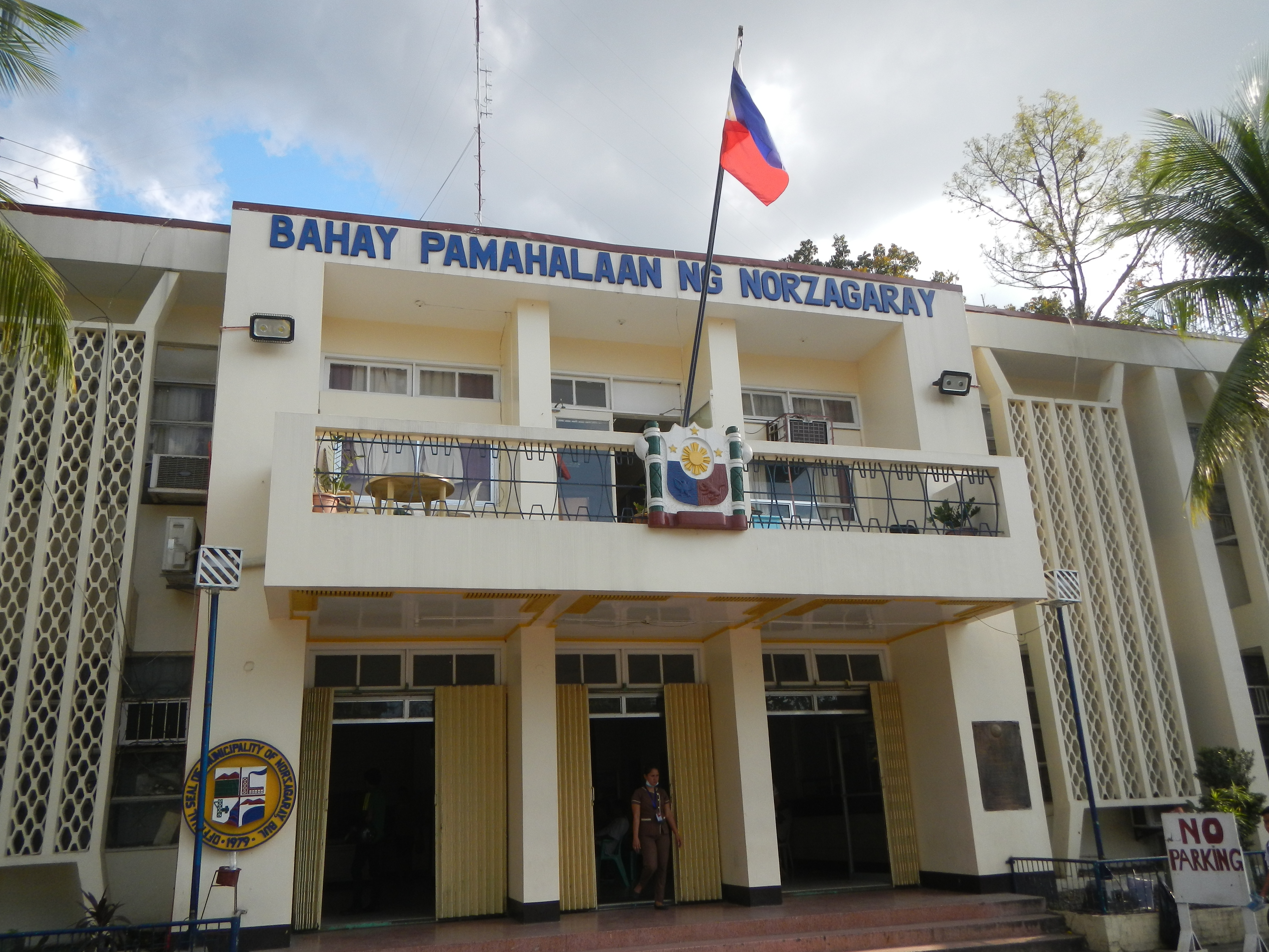 Town hall Compound, Maps of Norzagaray, Bulacan in Town proper of Barangay Poblacion, Norzagaray, Bulacan, Bulacan province Sinfroso de la Cruz & 31 Martyrs of 1896-1900 and VFP Heroes Monuments (Norzagaray, Bulacan) Norzagaray, Bulacan Municipal Hall in Armando C. Enriquez Park (along the General Alejo G. Santos Highway (Angat-Norzagaray, Bulacan section) from the Angat, Bulacan Welcome arch (in Norzagaray, Bulacan) located in Barangay Santa Cruz, from Santo Cristo, Angat, Bulacan, Bulacan province (along the General Alejo G. Santos Highway (Angat-Norzagaray, Bulacan section) interconnecting with the General Alejo Santos Highway, Bustos-Angat, Bulacan and Bustos-Angat, Bulacan Provincial Road; accessed from Maharlika Highway (Cagayan Valley Road, Baliuag-Pulilan-Guiguinto, Bulacan) Pan-Philippine Highway, also known as the Maharlika "Nobility/freeman" Highway or Asian Highway 26, Cagayan Valley Road; I hereby Certify that I was assisted and granted express permission by the Officers of the Town Hall to take photos of Maps and interiors, exterior which are open for public use).